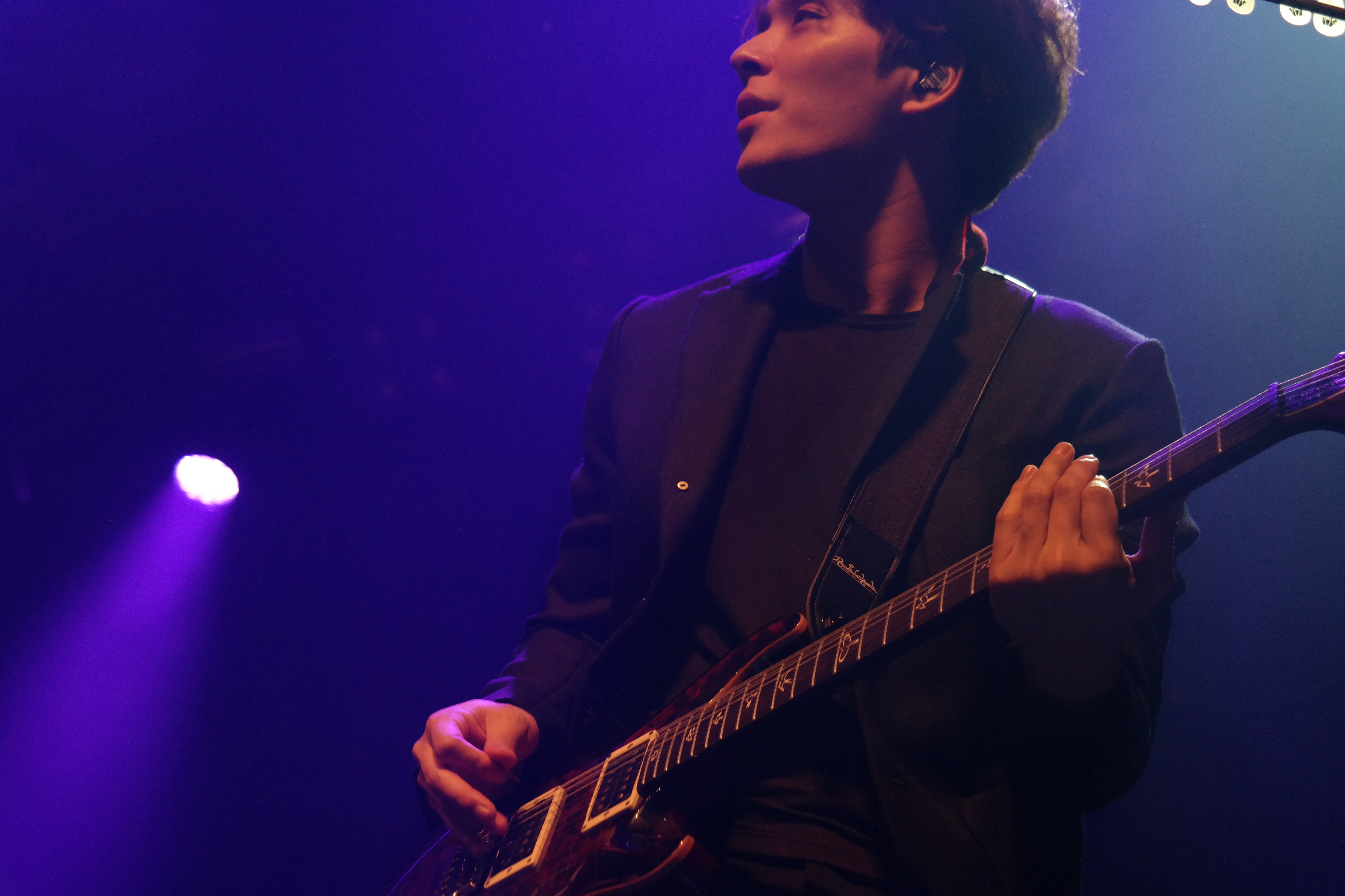 FTISLAND in Paris, La Cigale 8